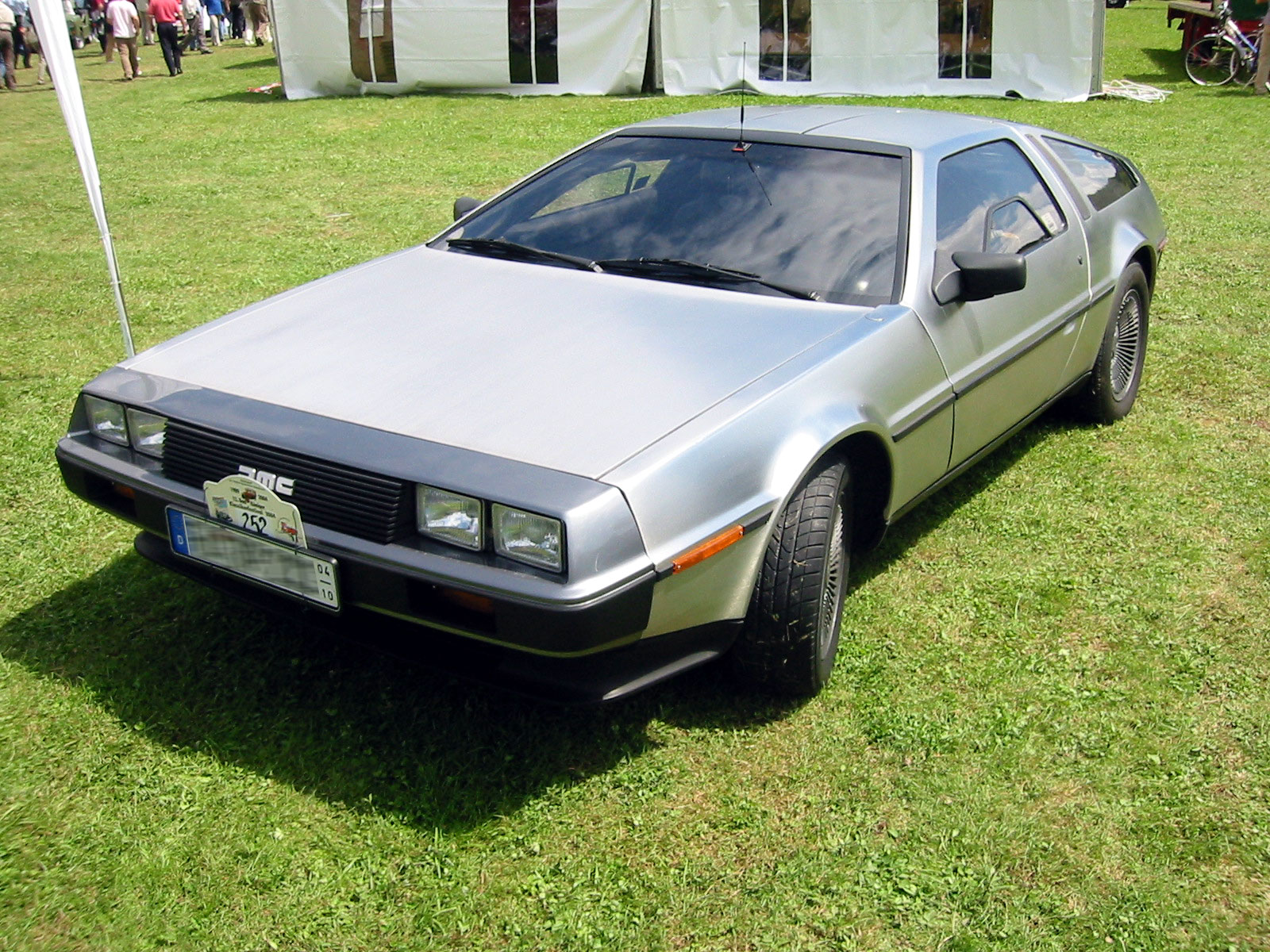 De Lorean DMC12